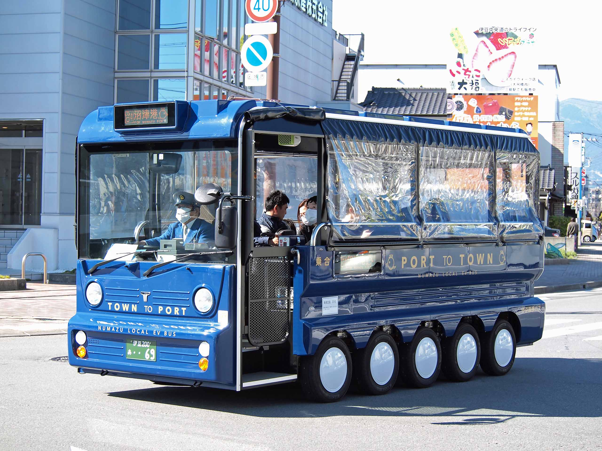 Thinktoghther eCOM-10 battery-powered bus for Izu Hakone Bus, operated in between Numazu Station and Numazu Port since March 2020. License plate: SZI200 A0069